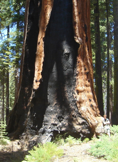 Franklin Tree